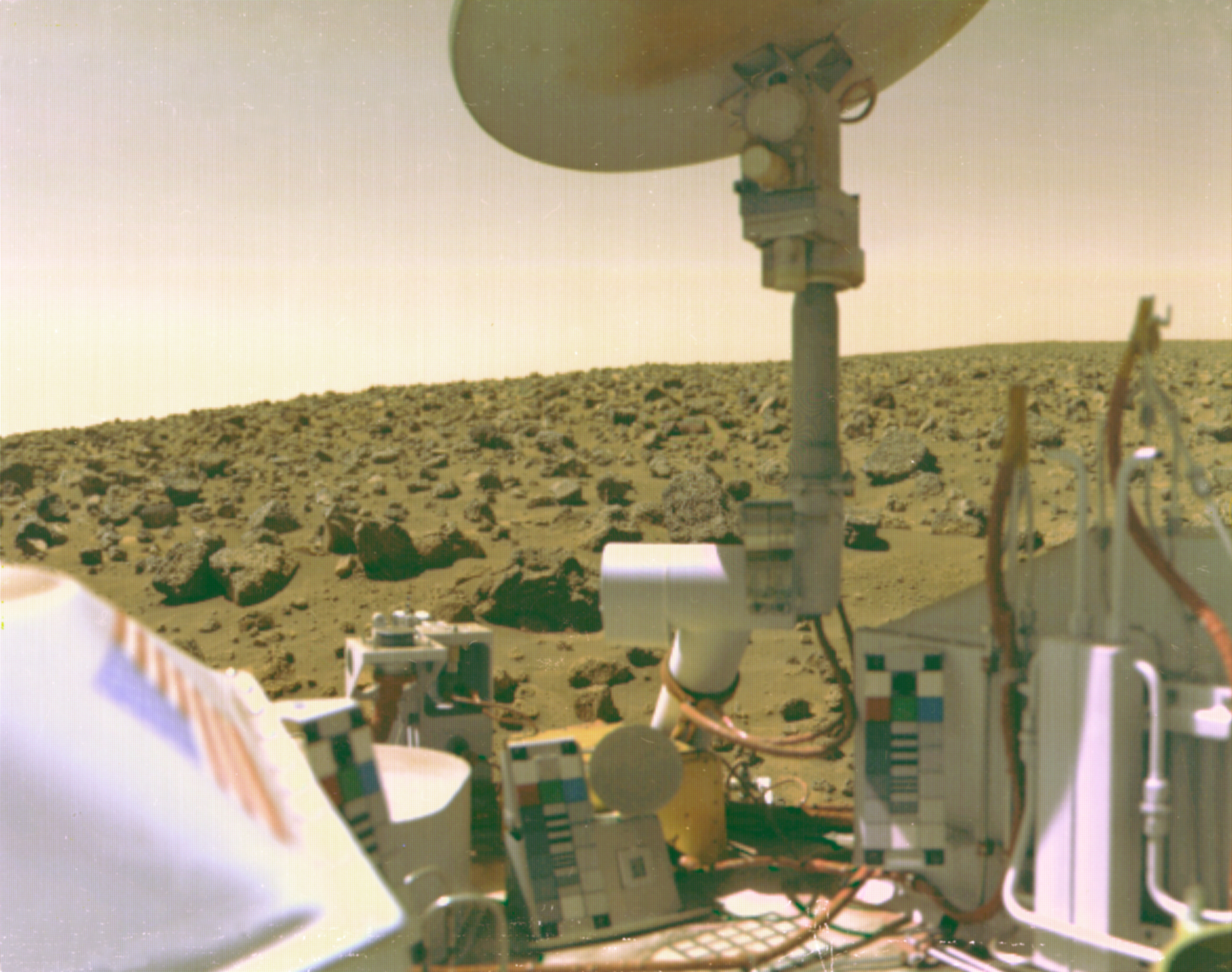 The boulder-strewn field of red rocks reaches to the horizon nearly two miles from Viking 2 on Mars' Utopian Plain. Scientists believe the colors of the Martian surface and sky in this photo represent their true colors. Fine particles of red dust have settled on spacecraft surfaces. The salmon color of the sky is caused by dust particles suspended in the atmosphere. Color calibration charts for the cameras are mounted at three locations on the spacecraft. Note the blue starfield and red stripes of the flag. The circular structure at top is the high-gain antenna, pointed toward Earth. Viking 2 landed September 3, 1976, some 4600 miles from its twin, Viking 1, which touched down on July 20.